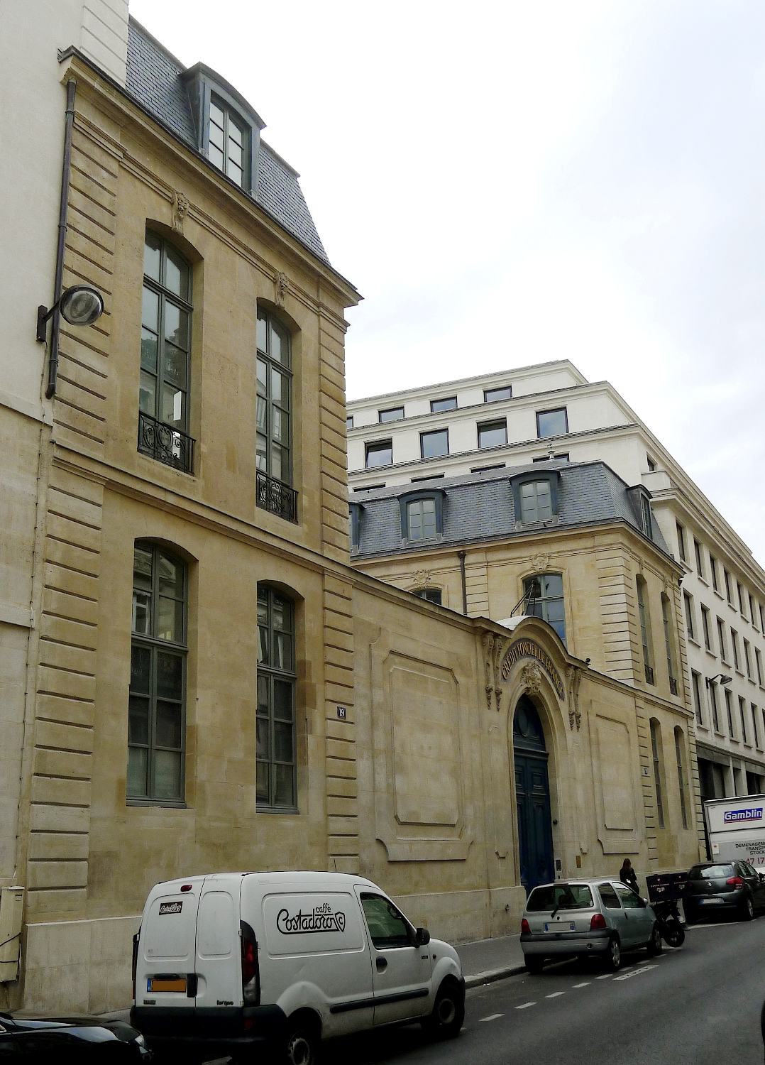 Capucines street - Paris